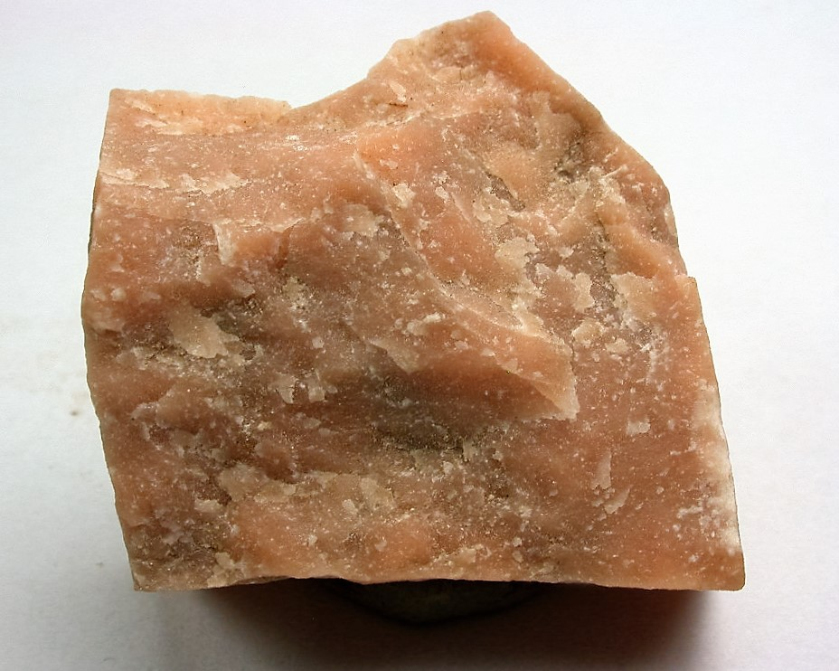 Polyhalite Dimensions: 24 mm x 23 mm x 11 mm Locality: Kerr McGee Mine, Carlsbad Potash District, Eddy Co., New Mexico, USA Pinkish mass. JSS specimen and photo.